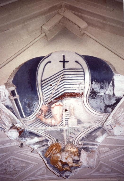 Coat of arms in the church of St. Joseph in Spadafora.